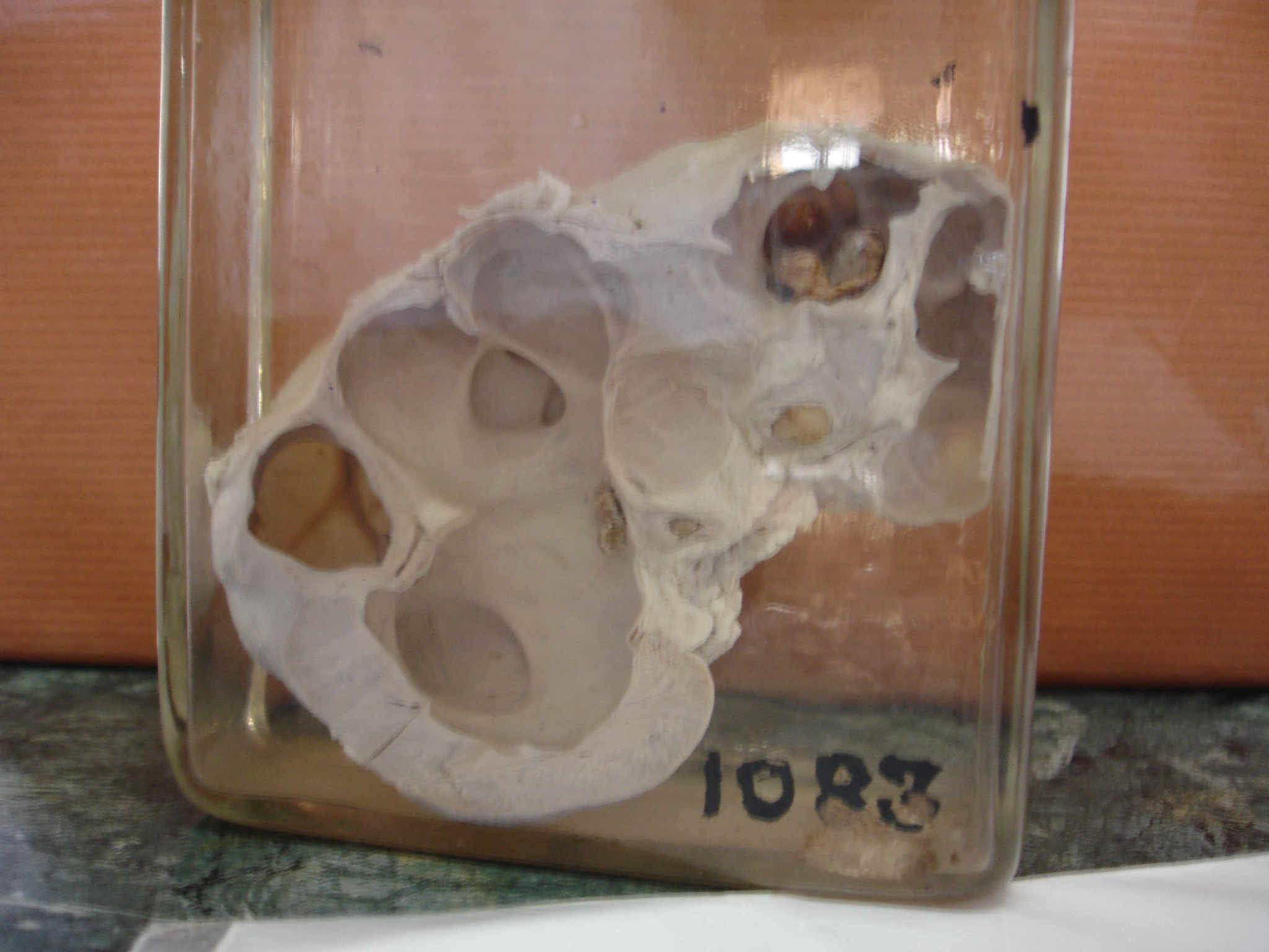 Cut section of the kidney showing multiple cystic spaces and renal calculi.